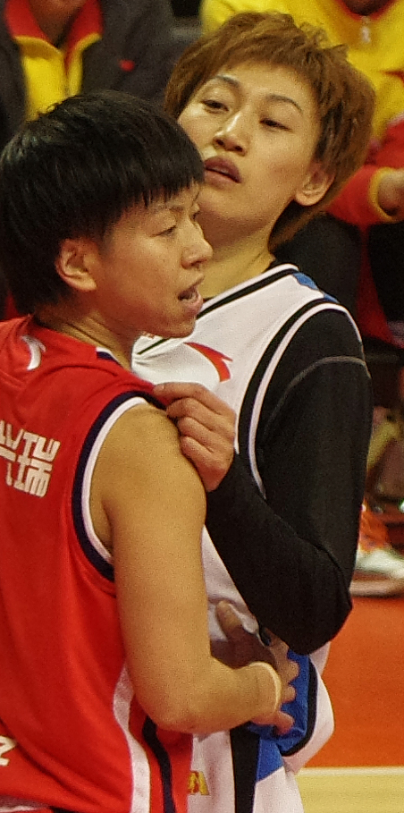 Shi Xiufeng defended by Yuko Oga during a 2014 Women's Chinese Basketball Association game